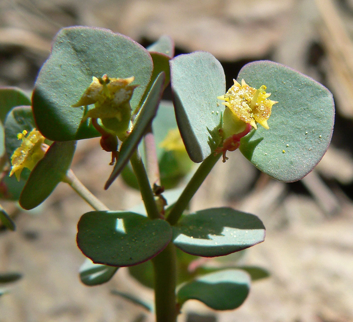 Euphorbia brachycera alongside the Mary Jane Falls trail, Kyle Canyon, Spring Mountains, southern Nevada (elev. about 2500 m)